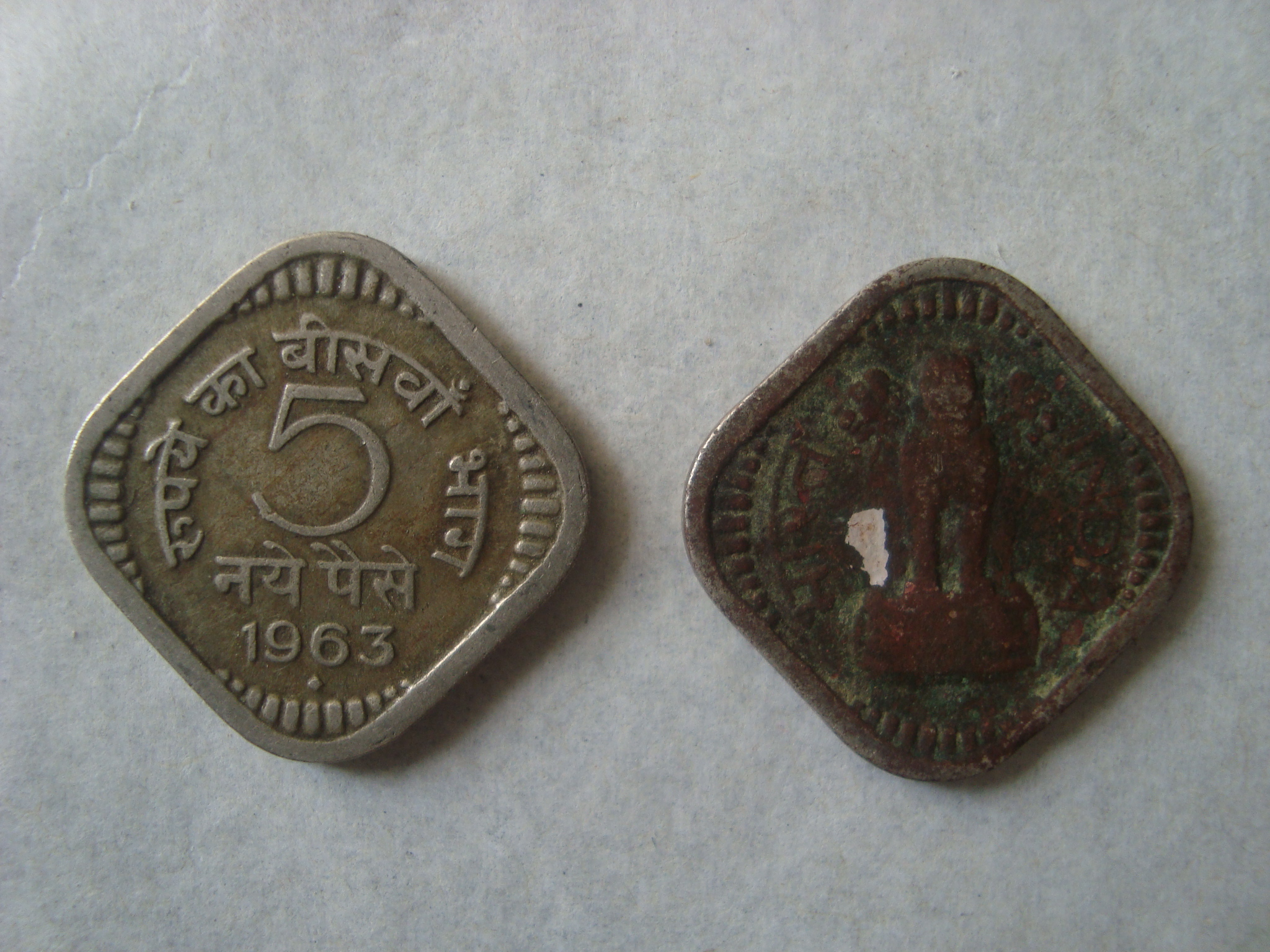 INDIAN OLD COINS